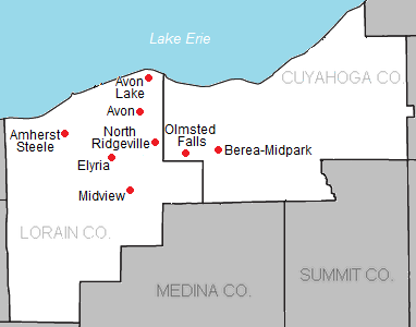 Self-modified map to show school locations.